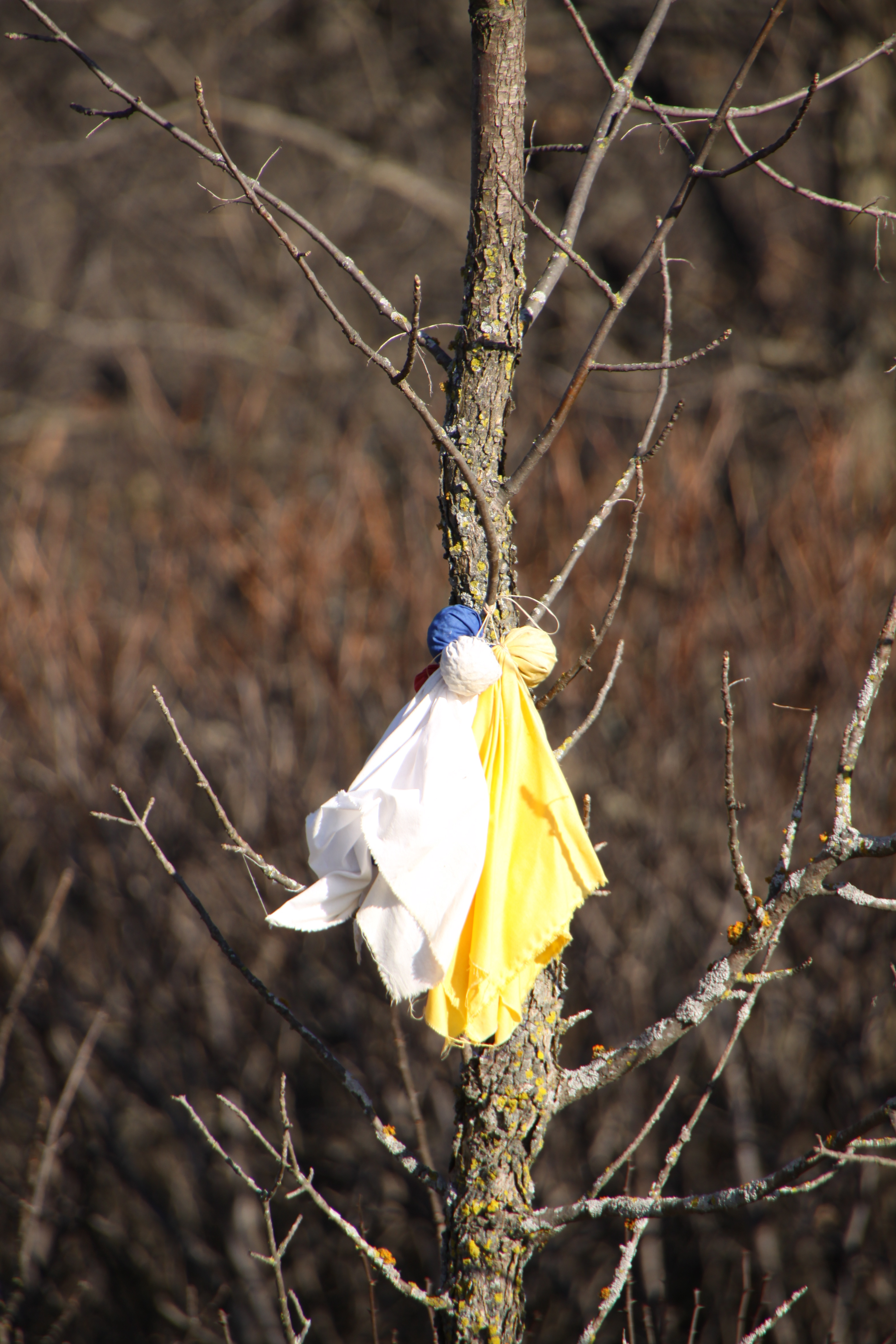 Prayer bundle at Birch Coulee battlefield site, Renville County, Minnesota, USA.